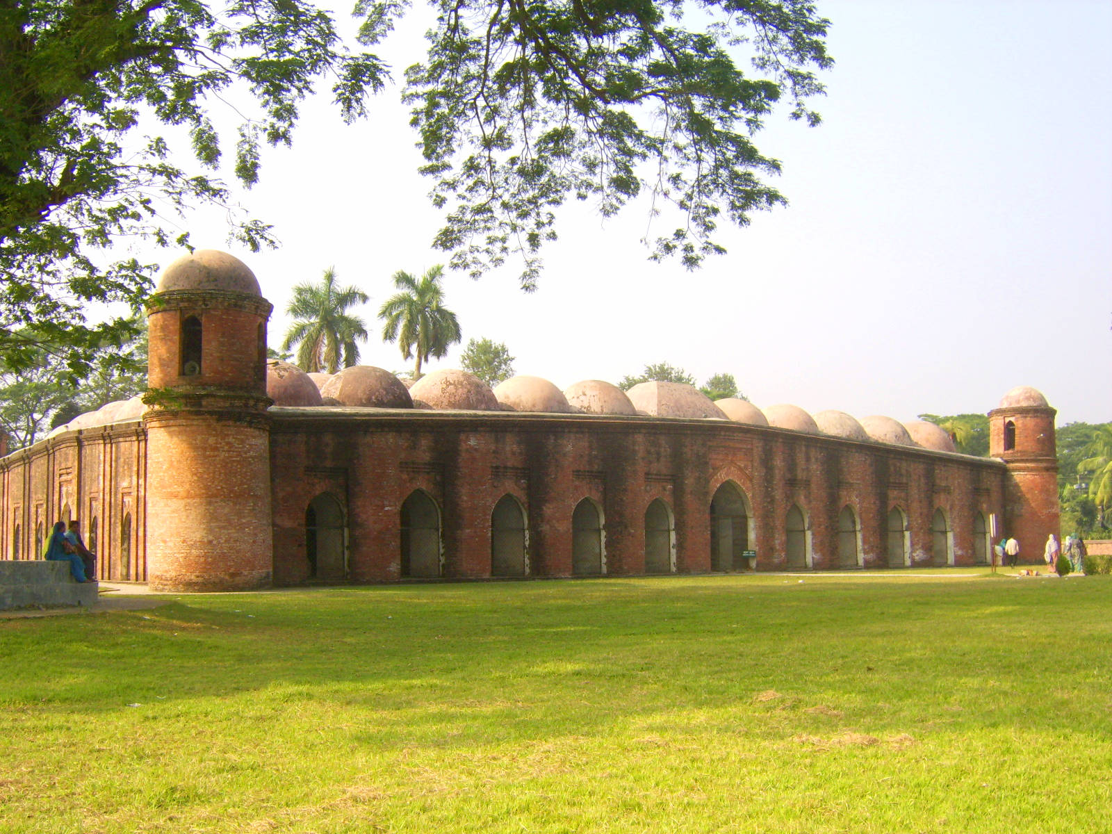 The Sixty Dome Mosque, part of the medieval Mosque City of Bagerhat, is a UNESCO World Heritage Site.